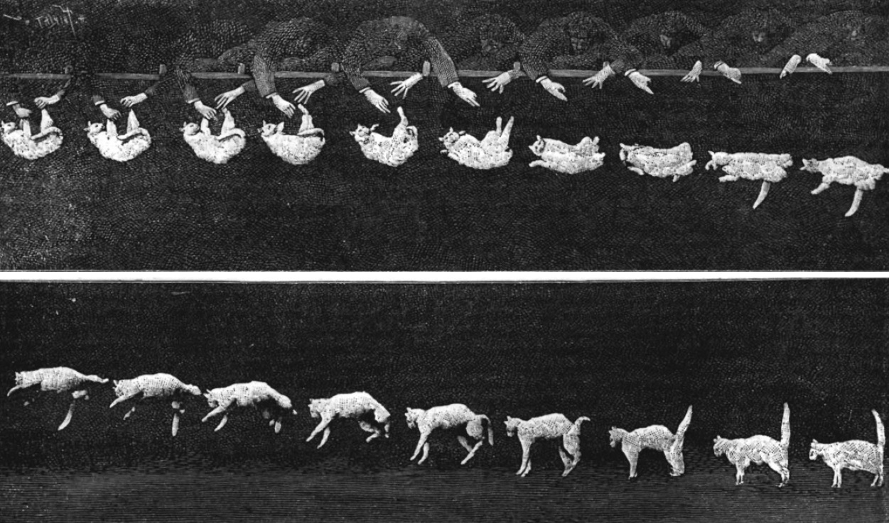 Falling Cat - a short film by Etienne-Jules Marey, first showed how cats land on their feet.